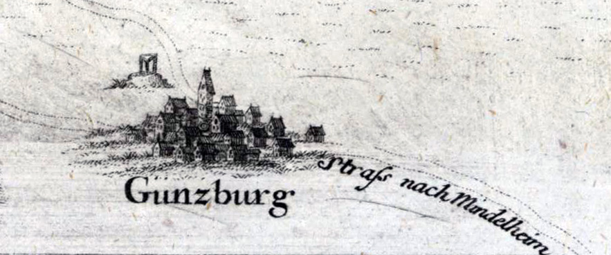 Extract from engraving published in 1737 showing Günzburg near kempten in the 18th century